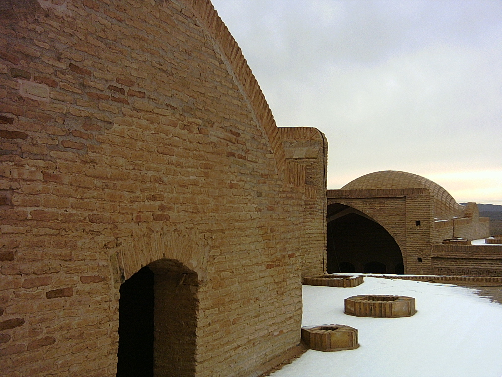 Miandasht Caravanserai in Shahroud, Iran.